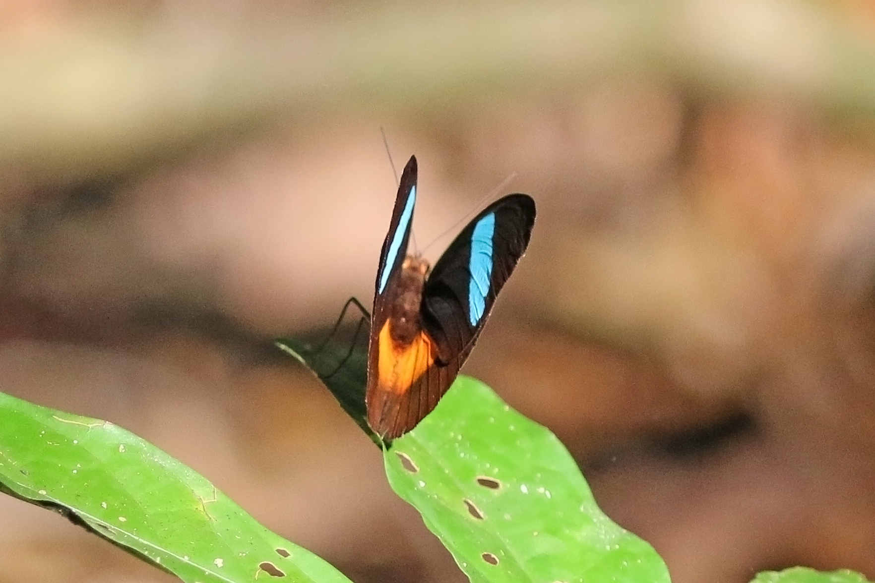 Obrinus olivewing (Nessaea obrinus faventia), male, Cristalino River, Southern Amazon, Brazil